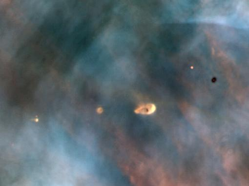 A Hubble Space Telescope view of a small portion of the Orion Nebula, captured by the Wide Field and Planetary Camera 2, reveals five young stars. Four of the stars are surrounded by gas and dust trapped as the stars formed, but were left in orbit about the star. These are possibly protoplanetary disks, or proplyds, that might evolve on to agglomerate planets. The proplyds which are closest to the hottest stars of the parent star cluster are seen as bright objects, while the object farthest from the hottest stars is seen as a dark object. The field of view is only 0.14 light-years across. The Orion Nebula star-birth region is 1500 light-years away, in the direction of the constellation Orion the Hunter.